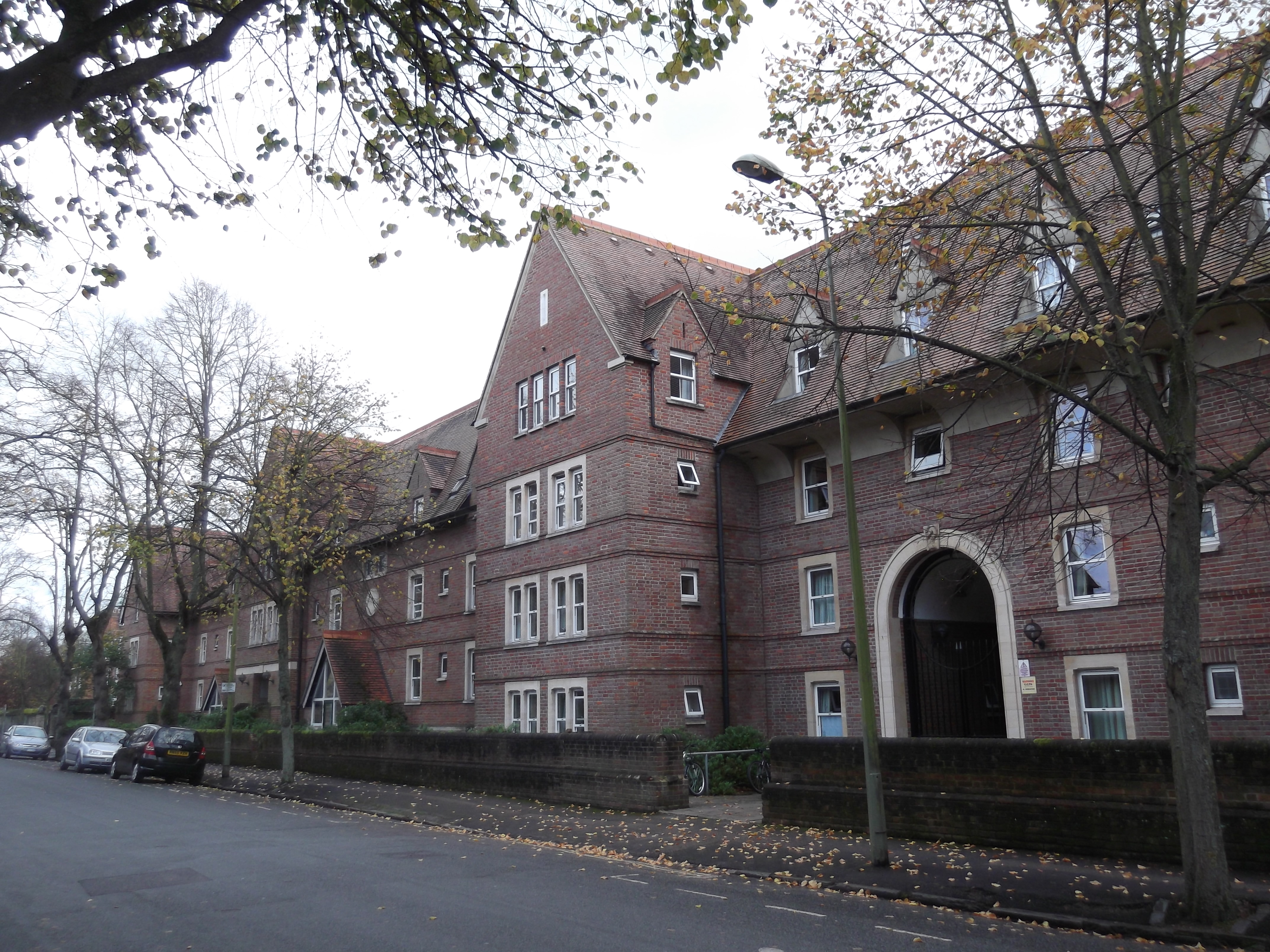 College on St Margaret's Road in north Oxford, England.